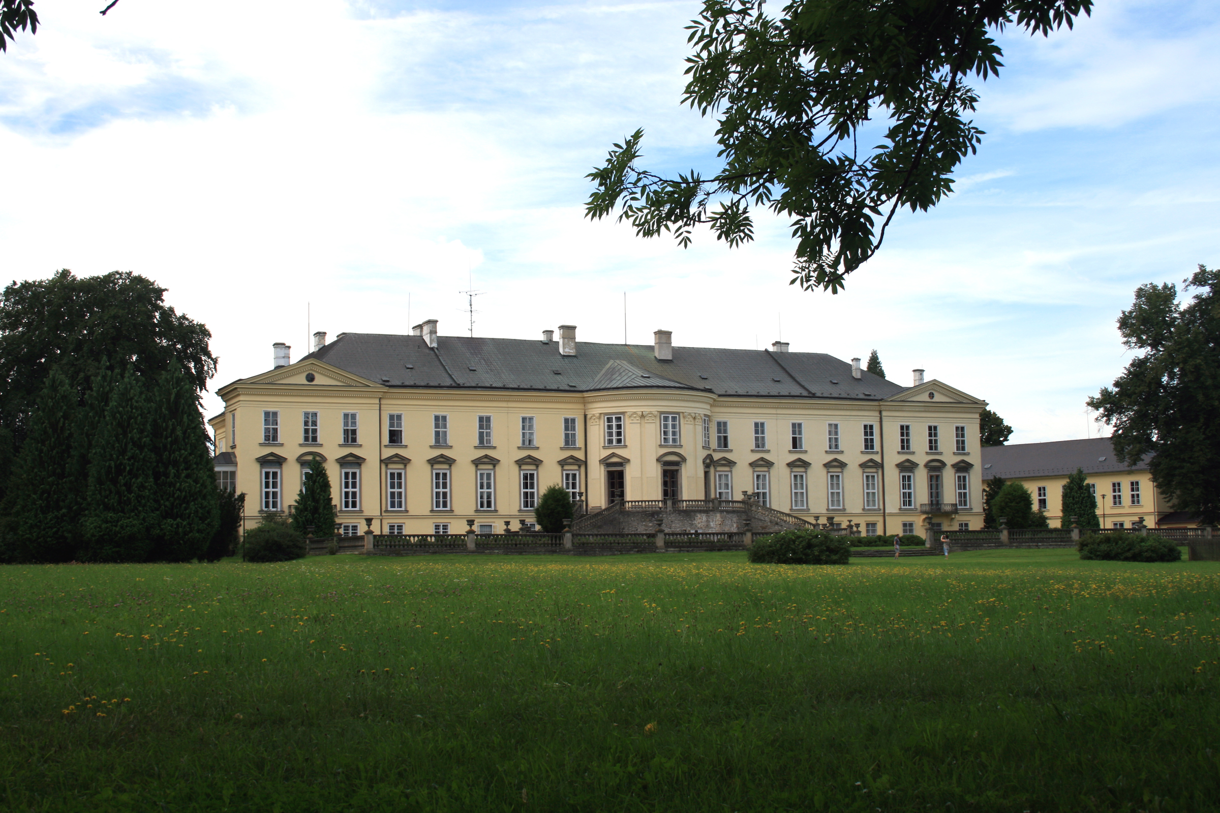 Castle in Nové Hrady, South Bohemia, Czech Republic